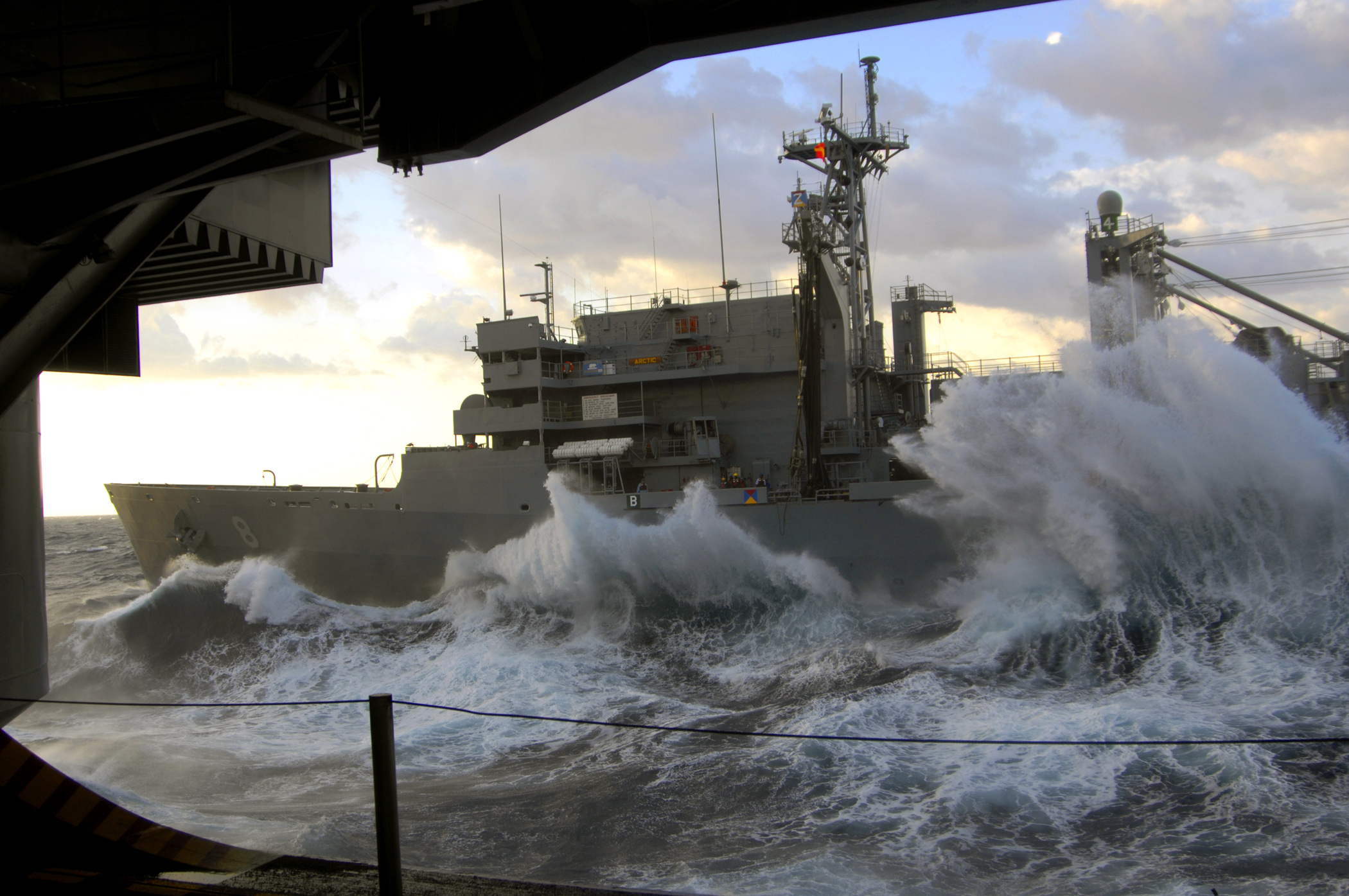 Rough seas pound the hull of Military Sealift Command fast combat support ship USNS Arctic as she sails alongside Nimitz-class aircraft carrier USS Harry S. Truman while preparing for a replenishment at sea, Nov. 6, 2007. Truman is a part of Carrier Strike Group 10 and is en route to the Central Command area of responsibility as part of the ongoing rotation to support maritime security operations in the region.